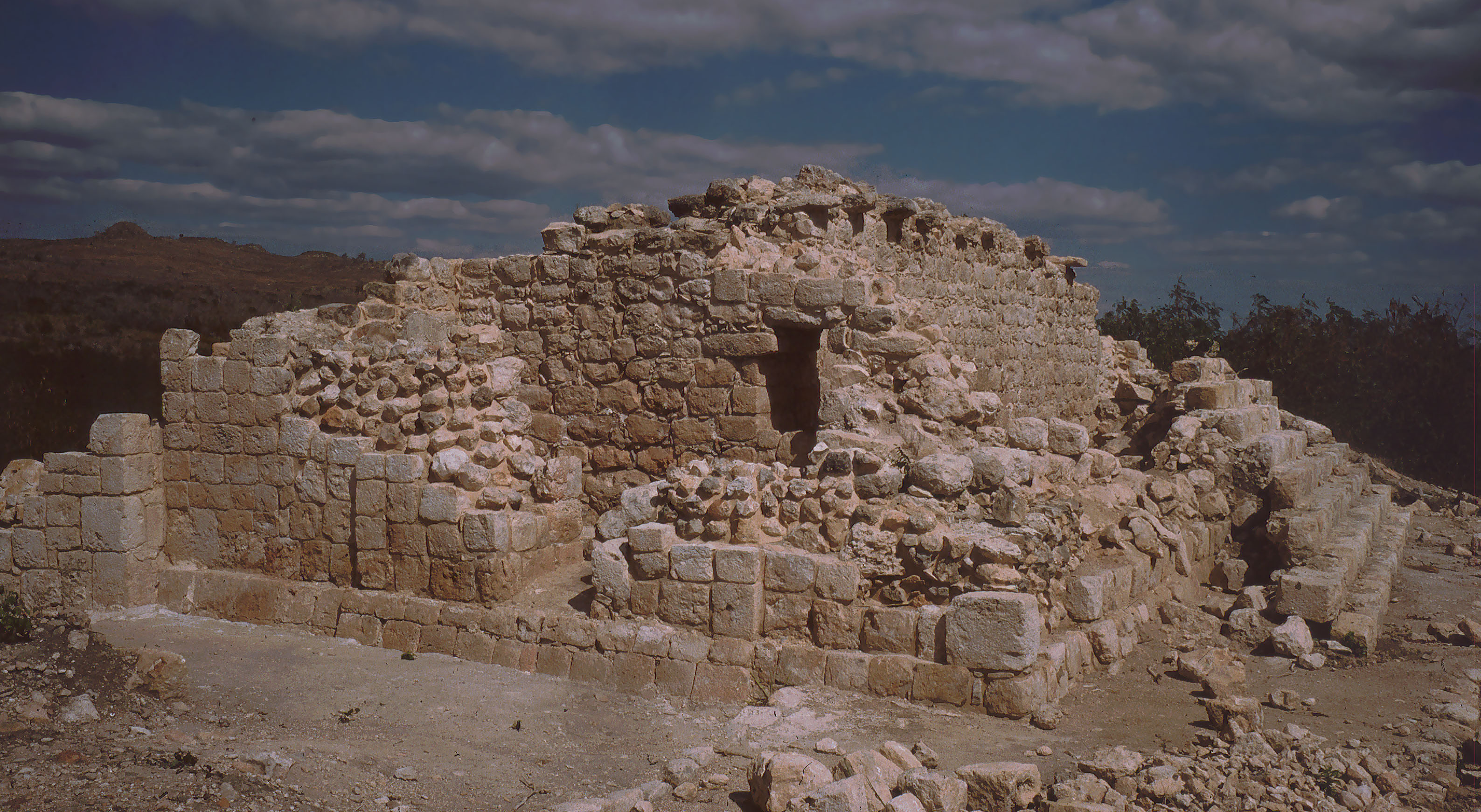 Oxkintoc, Yucatan, Mexico: Group Ah Canul, Structure 3.